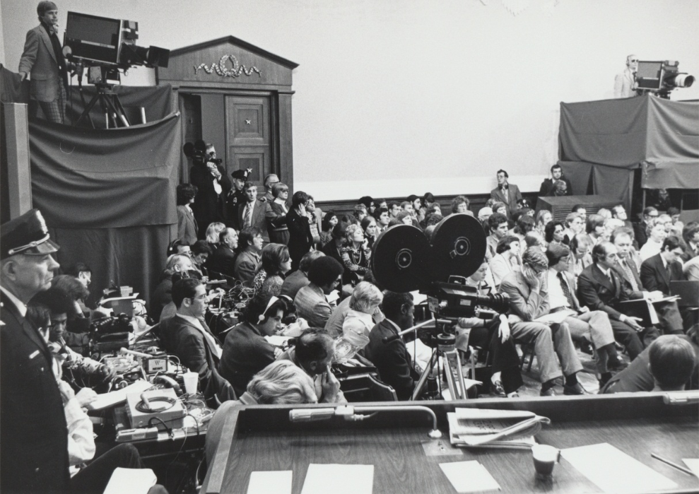 Given the high-profile nature of the hearings, a section of the committee room was designated for the press, and included multiple television cameras for the live gavel-to-gavel coverage. In front of the police officer near the rear door stands Mike Michaelson, the former Director of the House Radio-TV Gallery.